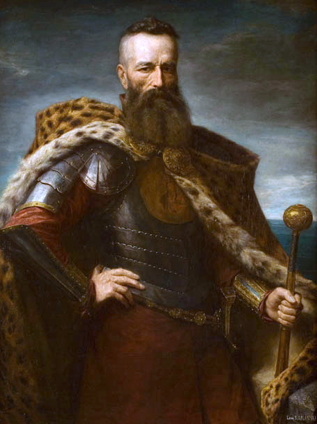 Stefan Czarniecki (1599-1665)